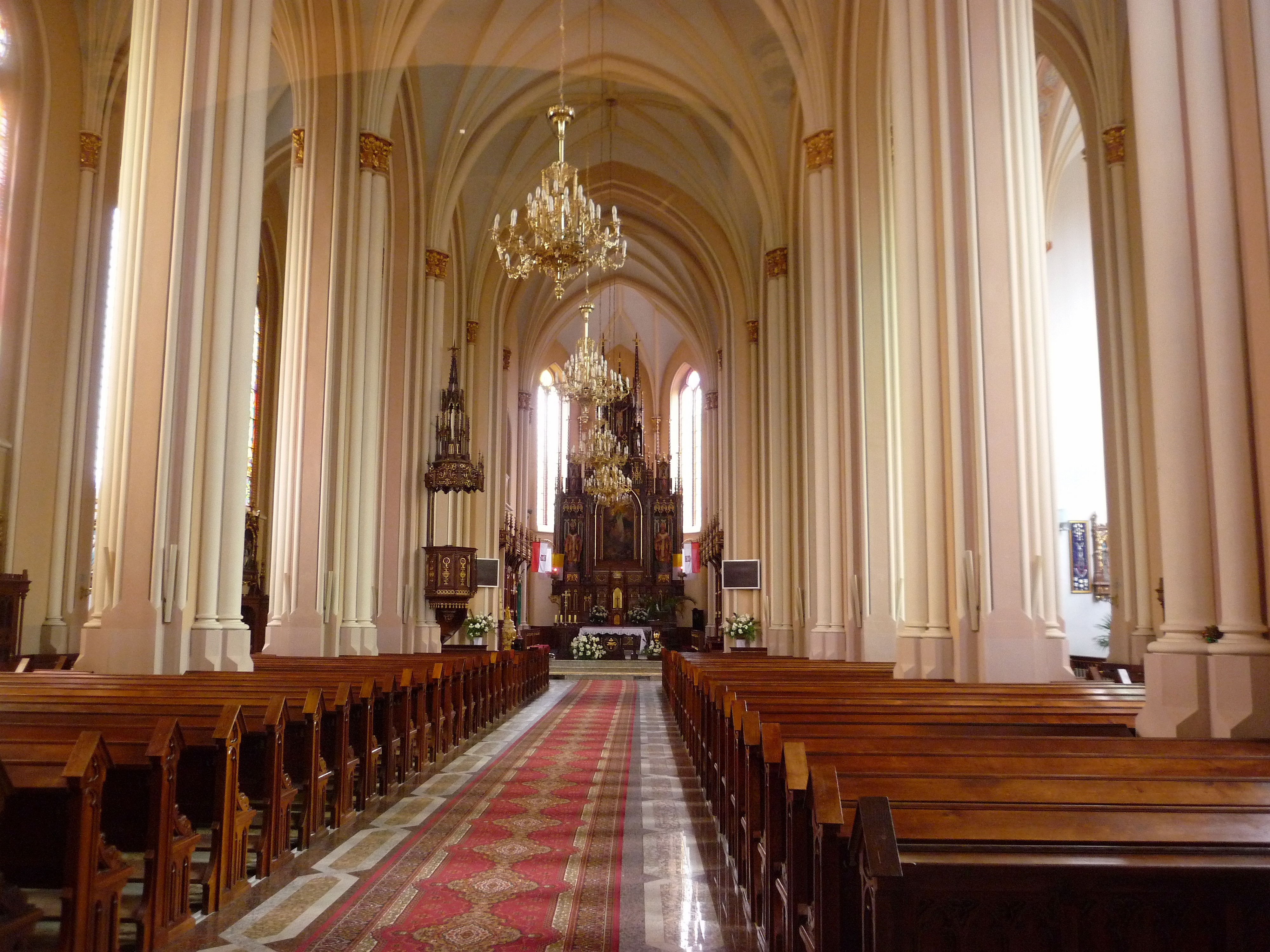 Interior of the parish church of the Assumption of the Virgin Mary, Sokoły, Poland